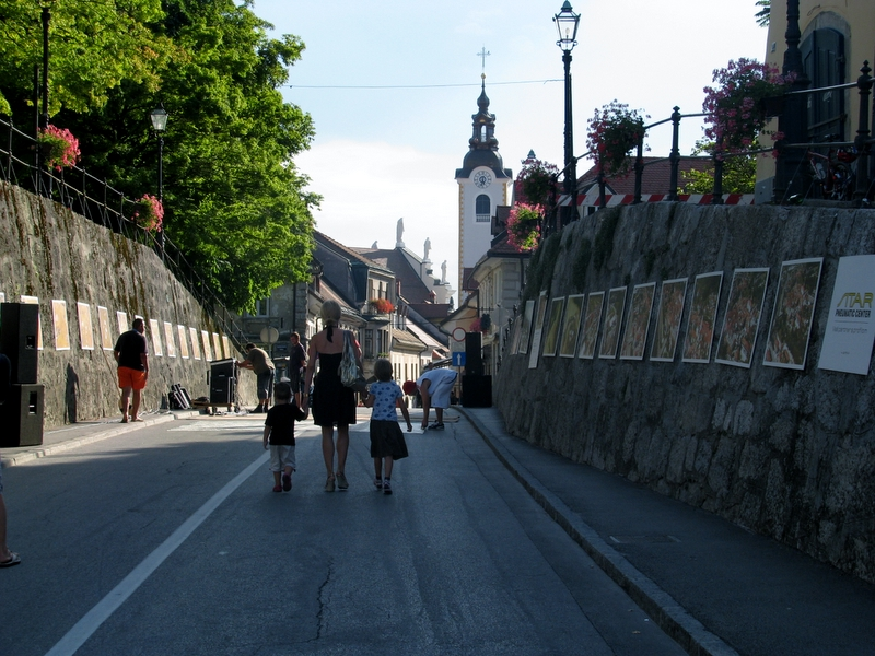 Kamnik city center